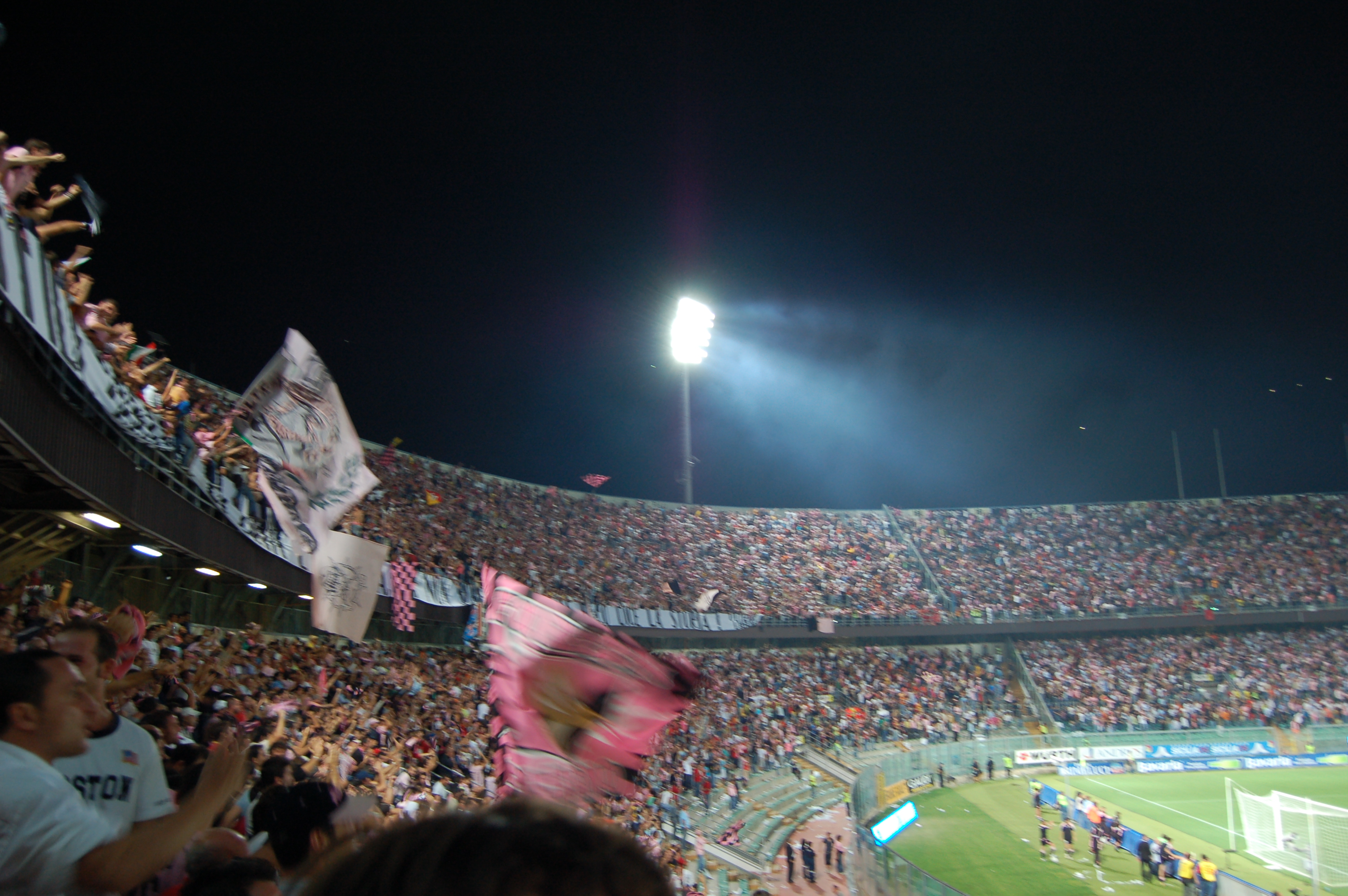 Palermo supporters in the 2006 Sicilian derbyDerby Palermo 5 Catania 3